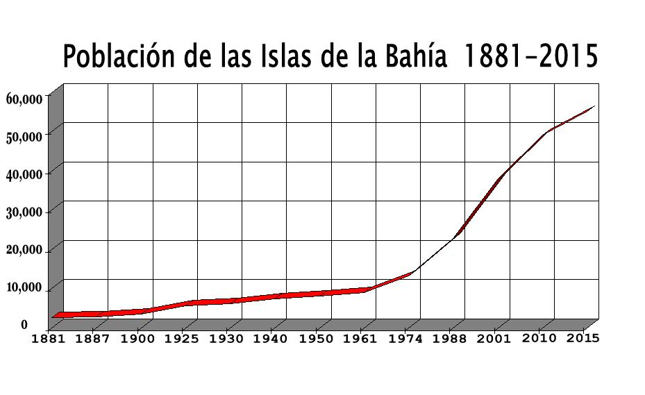 The Bay Islands' population (1881-2015).